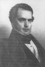 William Cabell Rives (1793-1868), American lawyer, politician and diplomat from Albemarle County, Virginia